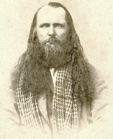 Contemporary photograph of Porter Rockwell